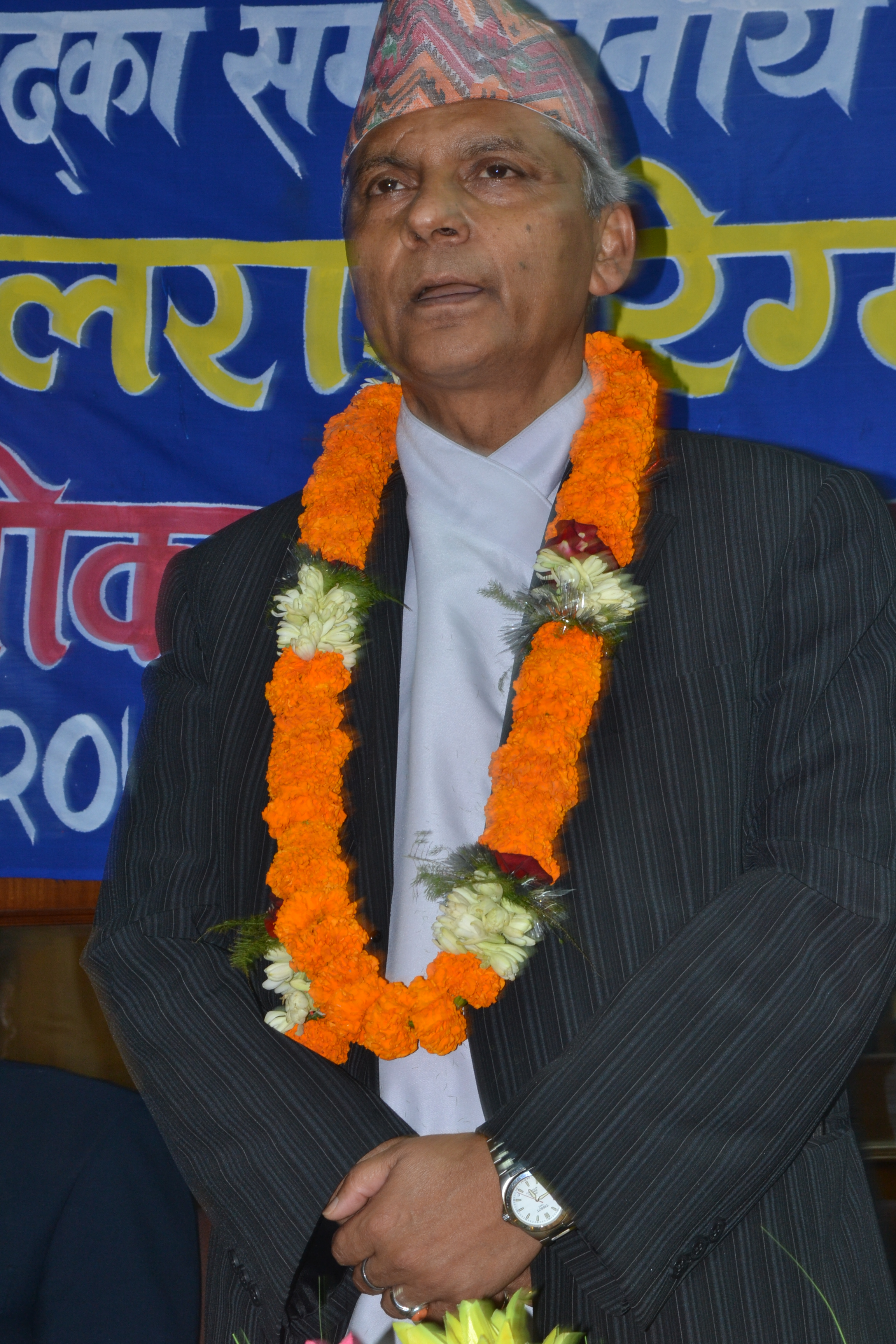 Prime Minister Khilraj Regmi at Bhirkutimandap library.